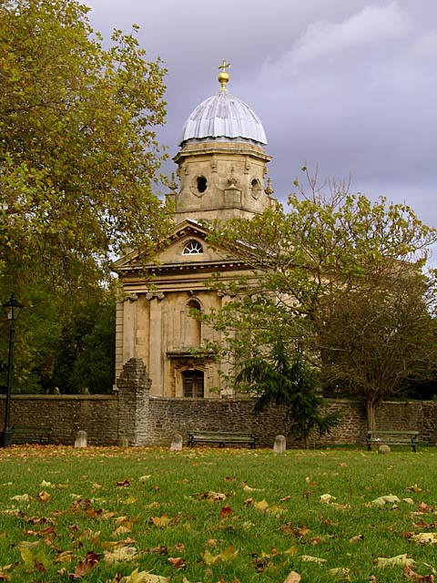 Redland Parish Church Redland Chapel was built in 1743 by John and Martha Cossins as a private chapel-of-ease with the parish of Westbury-on-Trym. The parish of Reland was created in 1942 and the chapel became the parish church.